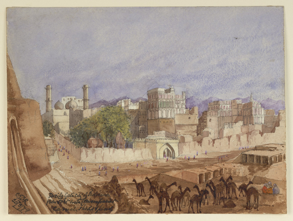 Taxila gate and city of Peshawar (N.W.F.P.); camels in foreground. 20 March 1879